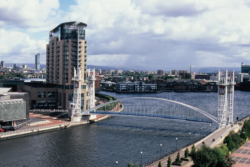 Salford Quays, Salford, Greater Manchester, England. In the background is Manchester.